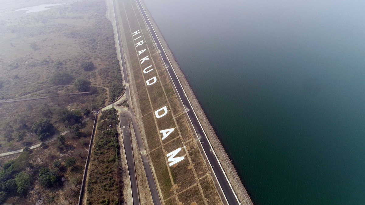 Tweet Text: Congratulate @OdishaWater as Hirakud Dam has been awarded best maintained project and structure by Central Board of Irrigation & Power. The longest earthen dam in the world has a pivotal role in #Odisha’s food production, irrigation and power generation.